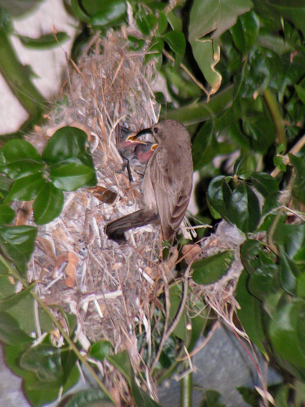 Female of Palestine Sunbird. The photo was taken in northern Israel, at Golan Hights.